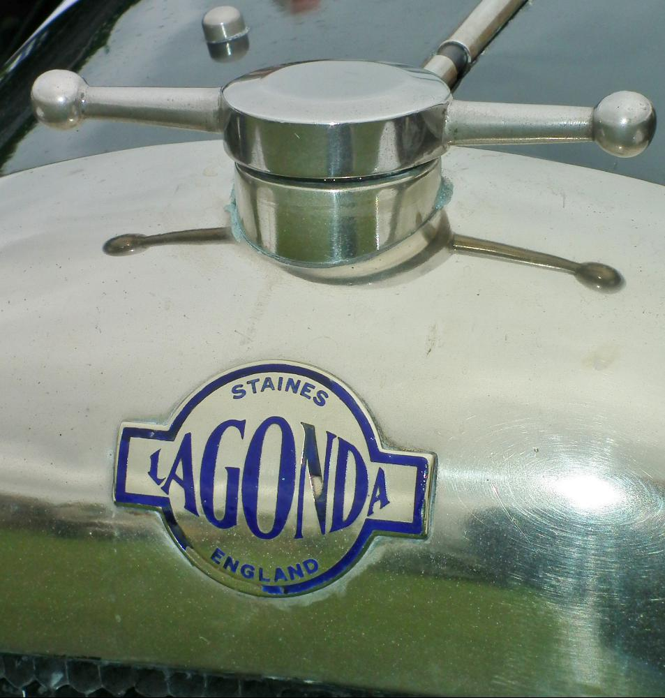 Lagonda badge on radiator of 1927 16/65